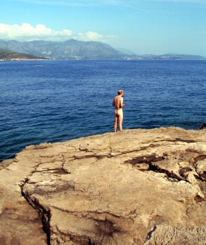 Nude beach on the Lokrum island outside Dubrovnik.